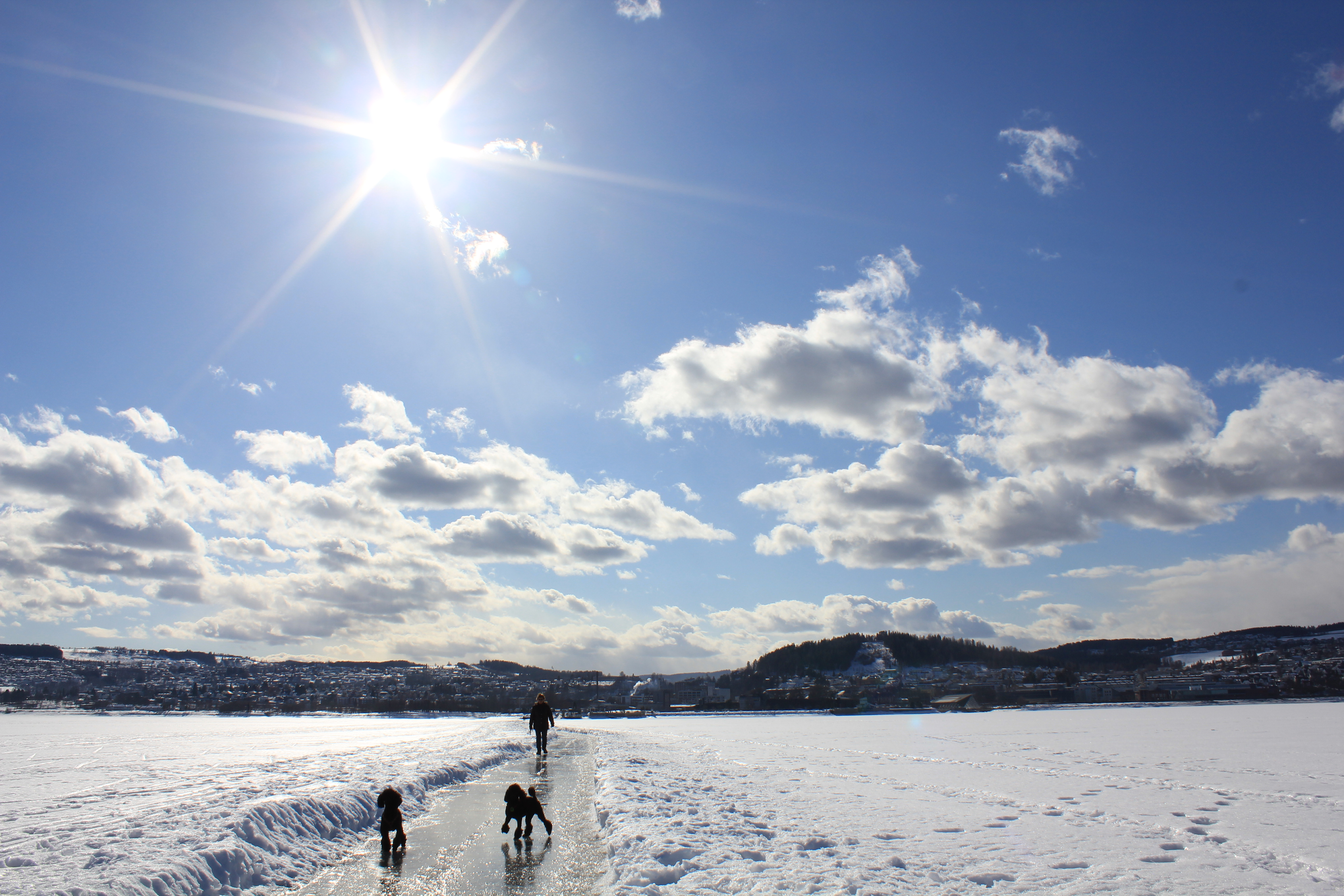 The small Norwegian town Gjøvik seen from Lake Mjøsa a winter day.